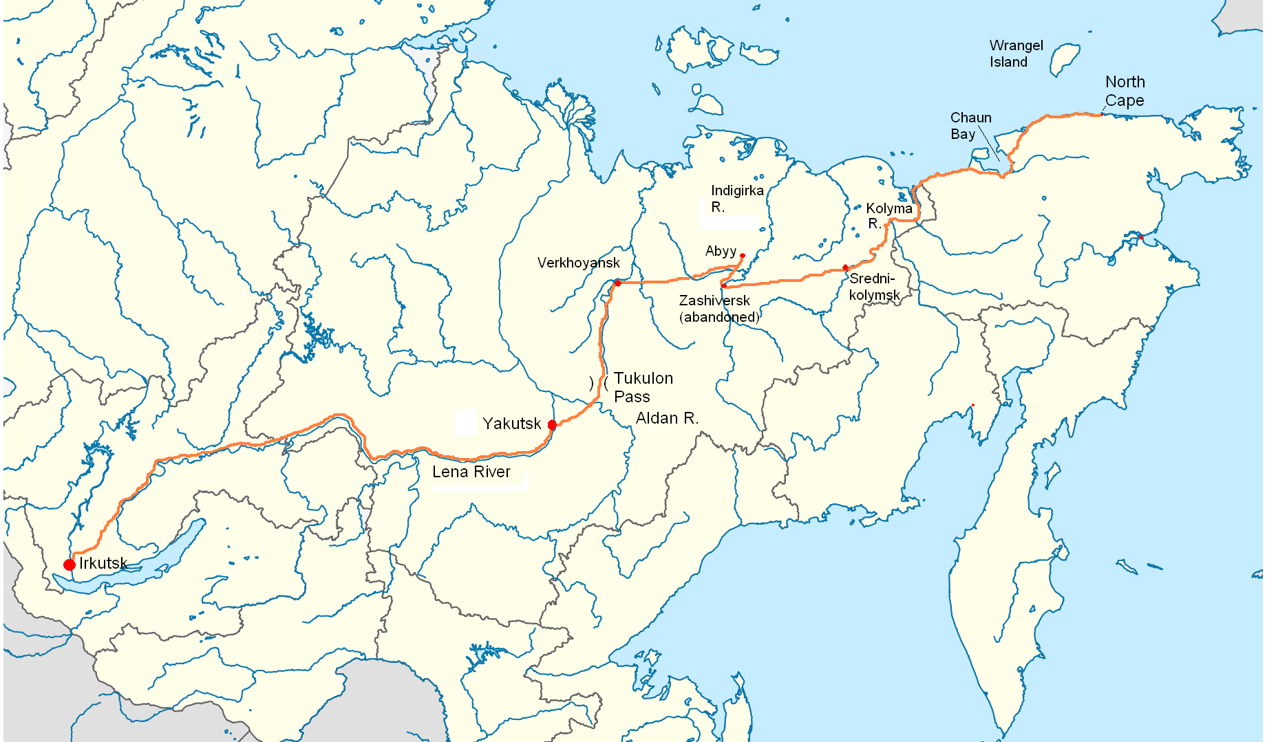 Approximate route of Olaf Swenson's trek from North Cape (Mys Schmidta) on the Arctic Ocean to Irkutsk. The portion from North Cape to just beyond Srednikolymsk was by dog sled. The route is based on Swenson's description, and (west of Srednikolymsk) on plausible choices of trail routes chosen from those shown on two old maps of Russia: Northern Yakutsk map 1882 and Siberia map 1908. The Route from Zashiversk to Abyy is unknown; one marked trail ran closer to the Indigerka River than is marked here. Other trails potentially linking Yakutsk and Irkutsk appear to have existed but the route along the Lena seems most straightforward.